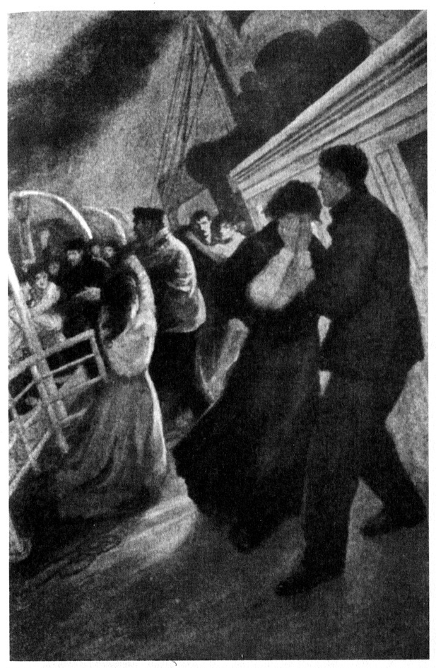 "The Sad Parting"